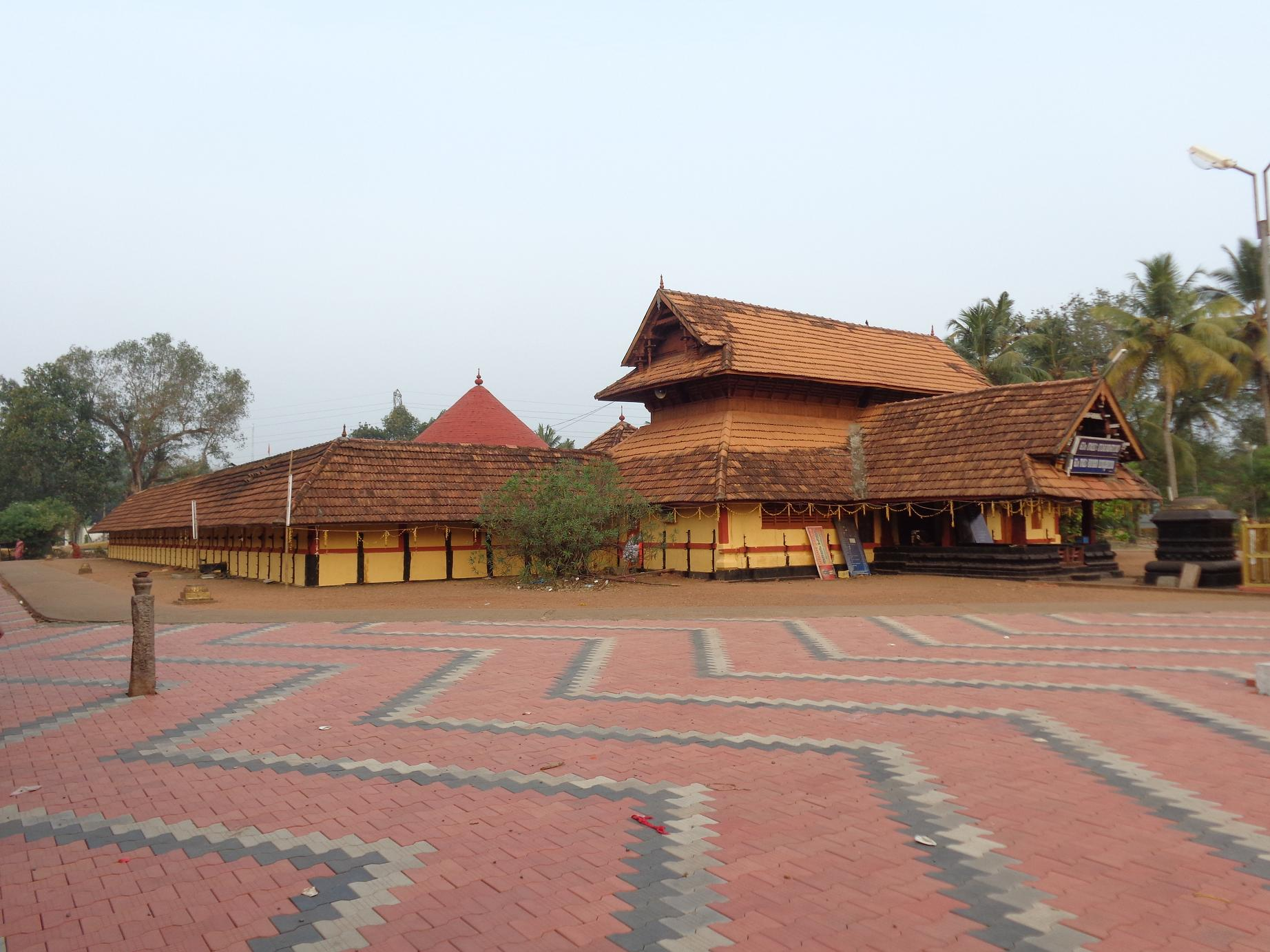 temple at Trpuliyoor temple, chengannoor